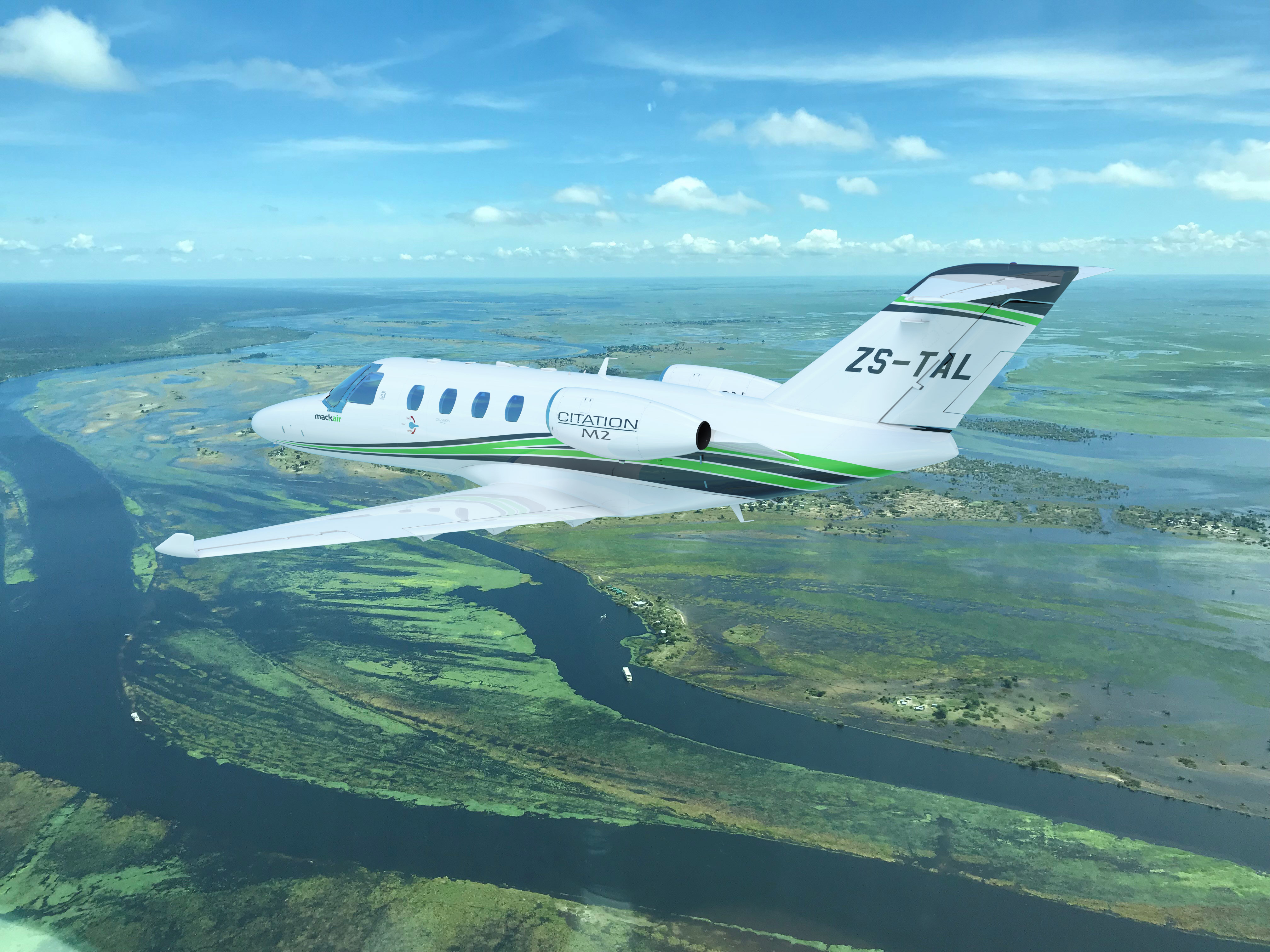 Mack Air Cessna Citation M2 over Kasane in flood season